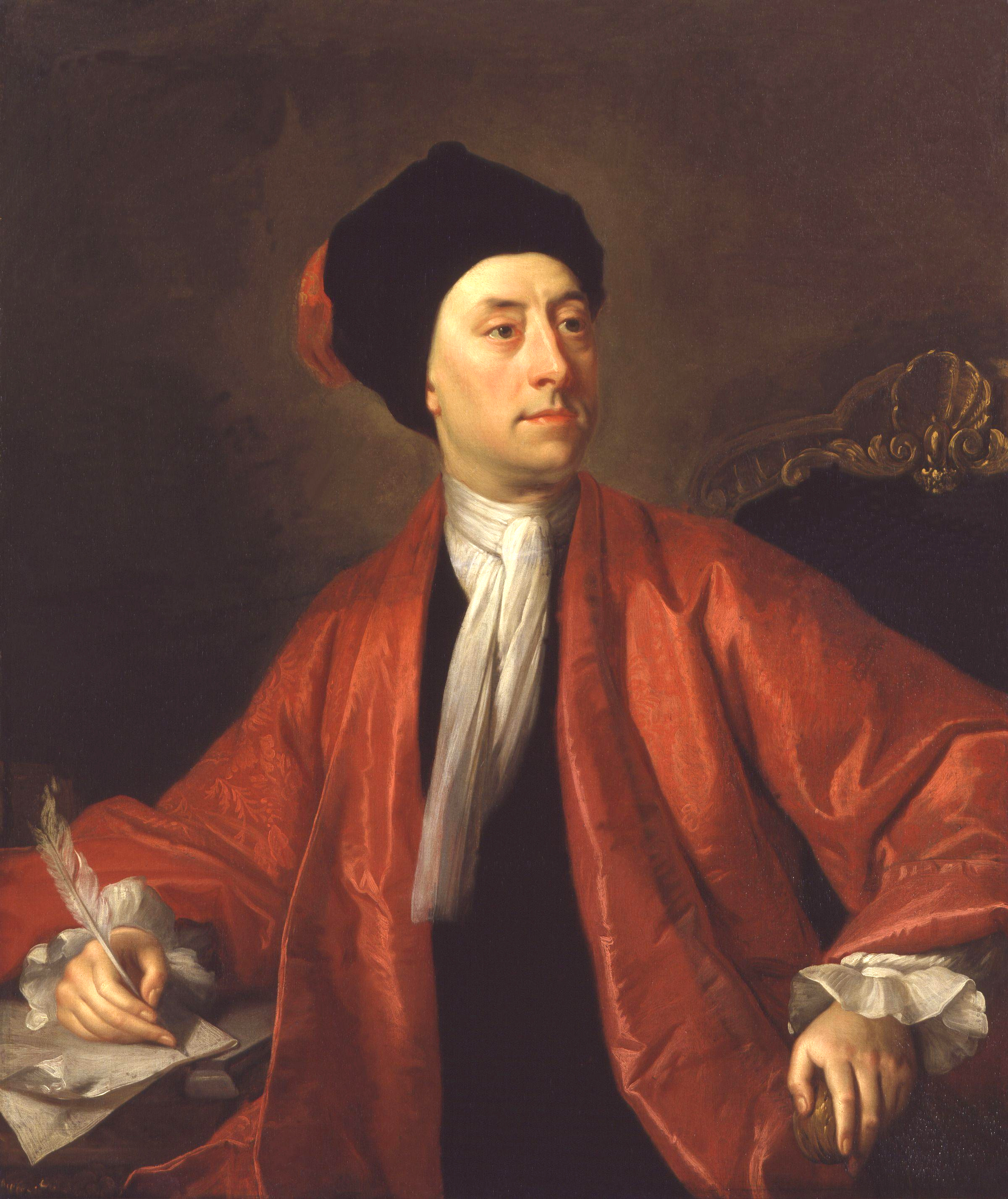 Matthew Prior, by Thomas Hudson (died 1779). All images in this batch have been confirmed as author died before 1939 according to the official death date listed by the NPG.